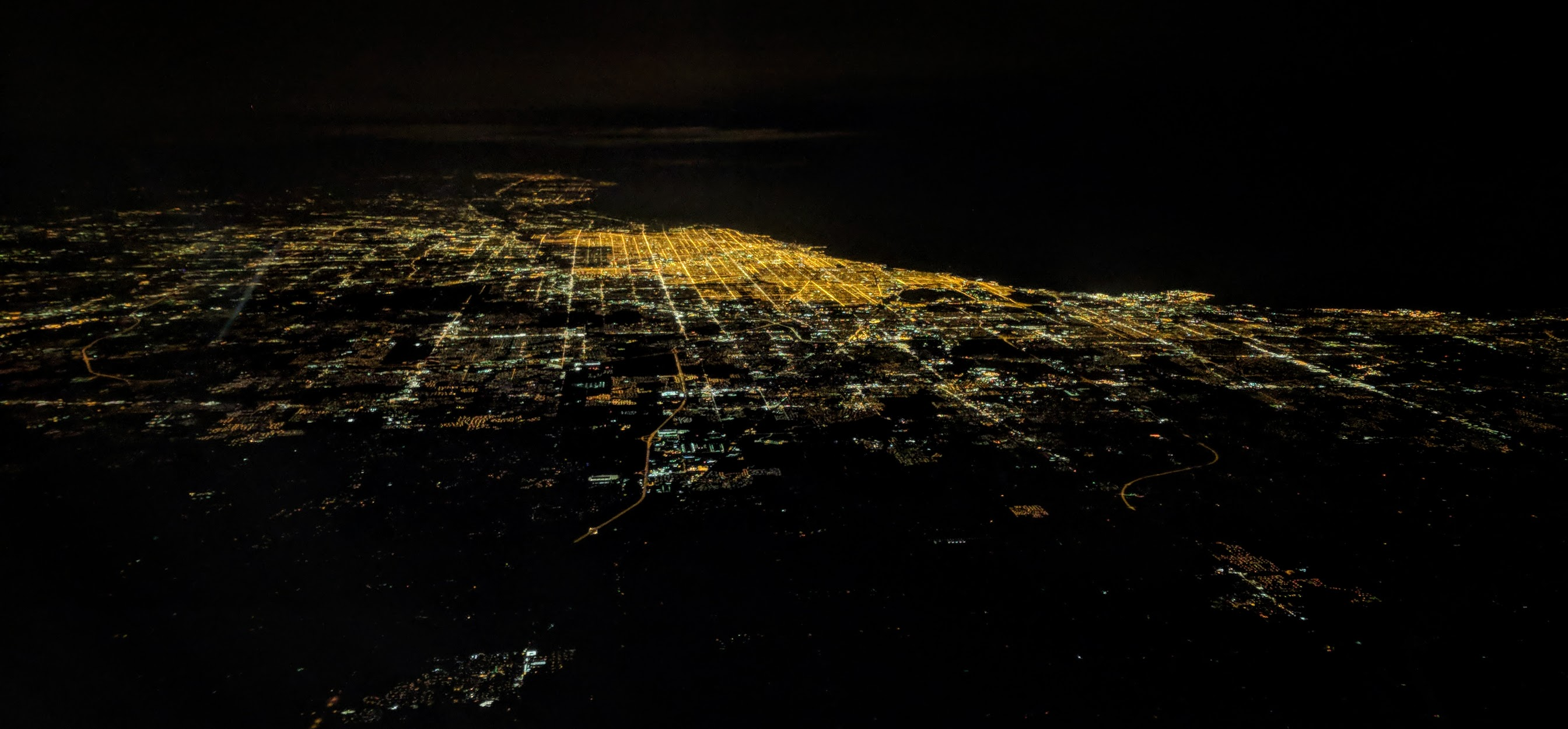 Night aerial view of Chicago and vicinity, from Gary, Indiana, on the right, through Waukegan, Illinois, and Kenosha, Wisconsin in the distance at upper left. The outline of Lake Michigan is prominent.